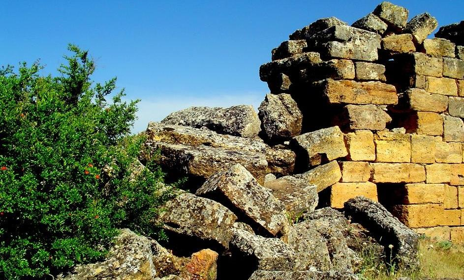 Ruins of Tripolis (Phrygia) near Buldan, en: Denizli Province, Turkey